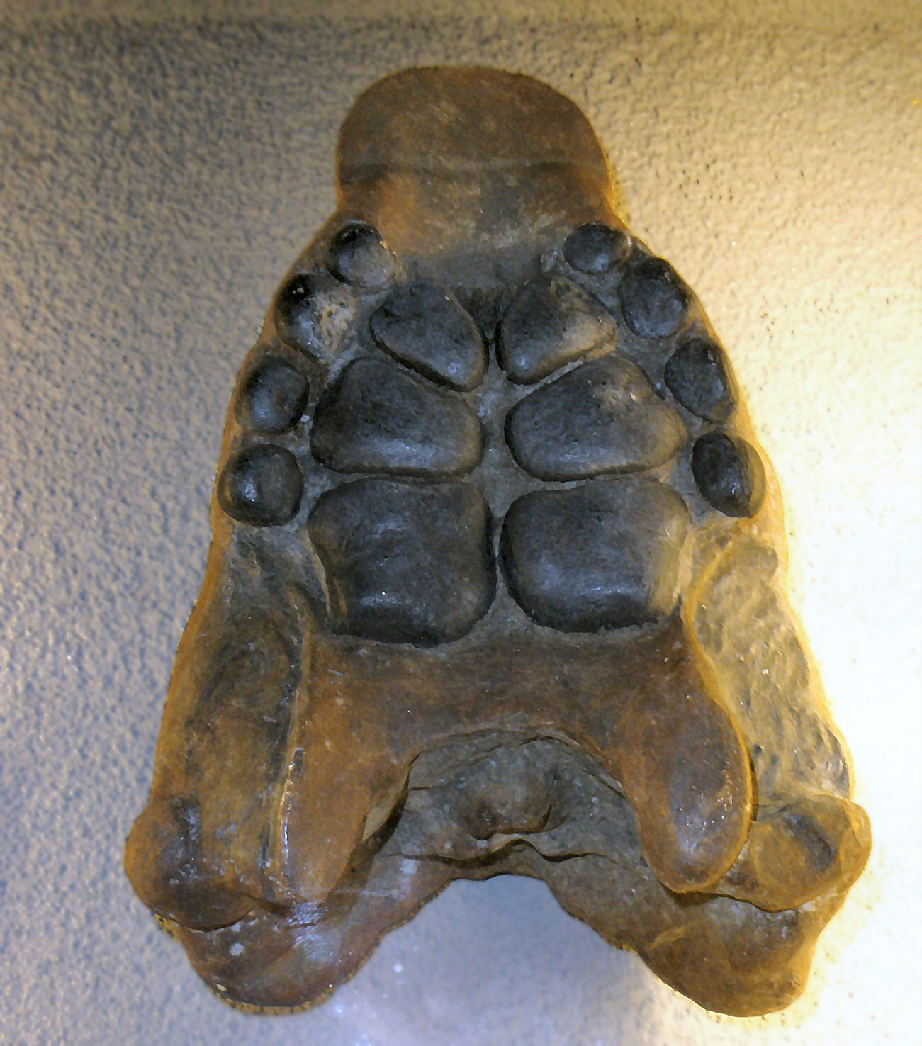 Replica of a skull of the Triassic marine reptile Placodus gigas (apparently based on the holotype specimen from the Muschelkalk of Bayreuth, premaxilla reconstructed without „incisors“ or corresponding alveoli), on display at Naturalis museum, Leiden, The Netherlands.